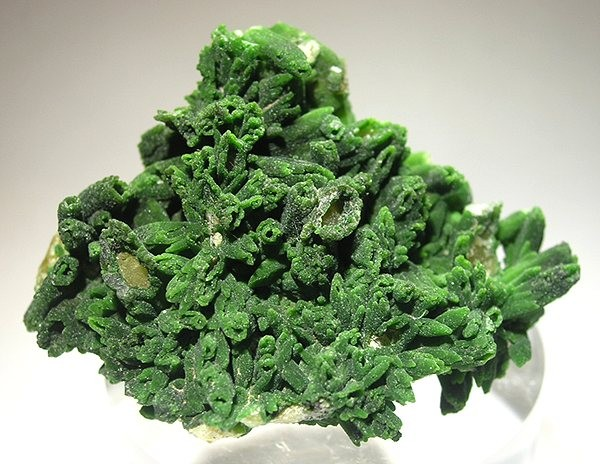 Arsentsumebite, Mimetite Locality: Tsumeb Mine (Tsumcorp Mine), Tsumeb, Otjikoto (Oshikoto) Region, Namibia (Locality at ) Size: 5.6 x 4.3 x 2.9 cm. An exceptionally rare and rich, very old-time specimen. This was originally labeled as pyromorphite (but never checked by analysis). Pyromorphite is not reported in crystalline form of any quality from Tsumeb and this would have been a miraculous piece. Further study has confirmed it is actually arsentsumebite pseudomorph after mimetite. Specimens of this type were reported to have been found in the upper oxidation zone, and so it most likely dates to 75 years or more in age. Ex. Gary Hansen Collection.